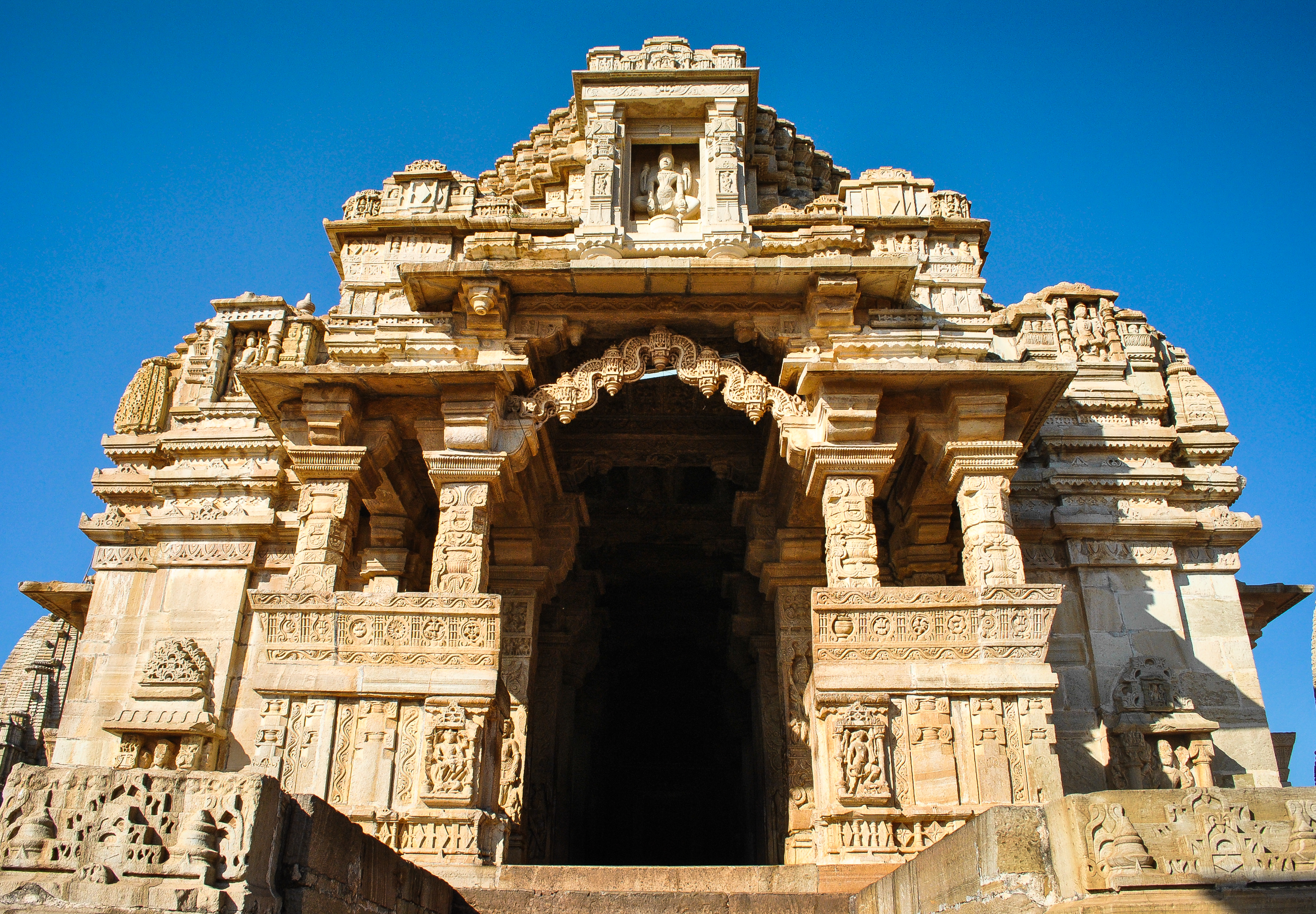 Rajasthan-Chittoregarh